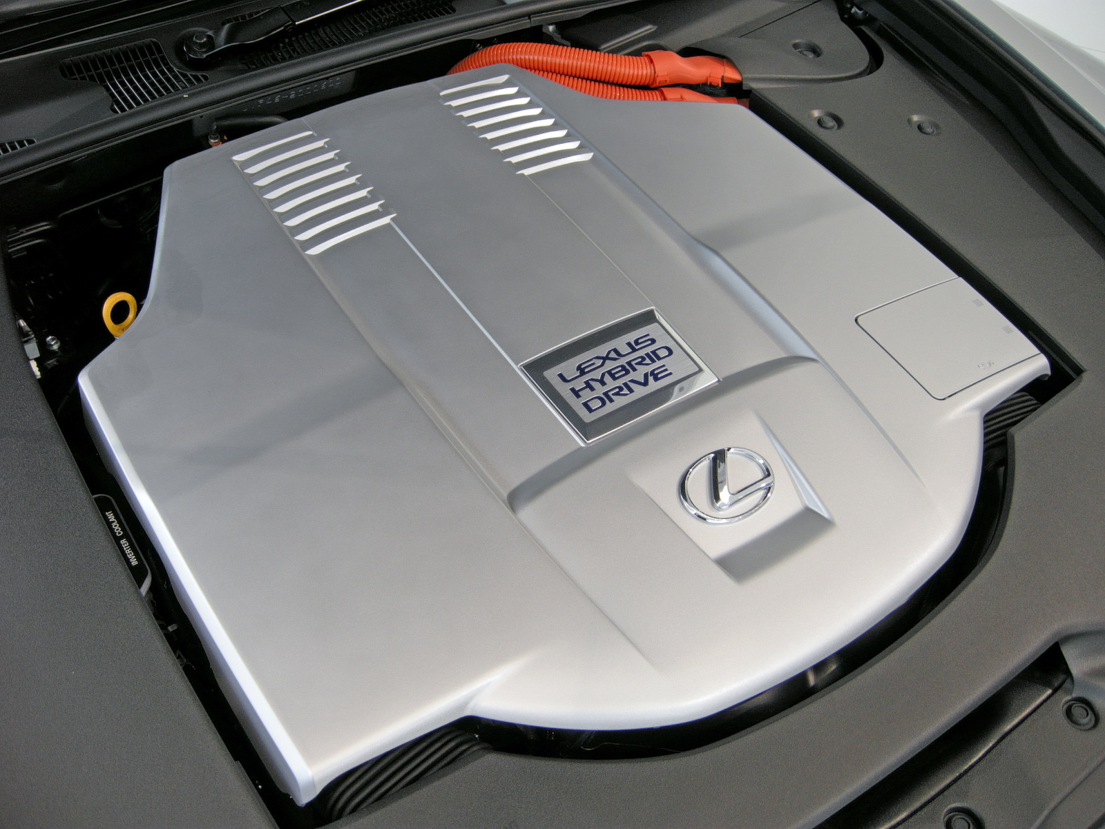 Lexus Hybrid Drive Unit ( 2UR-FSE 5.0L V8 + Electric-Drive Motor ) installed in Lexus UVF46 LS600hL